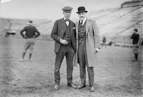 Frank Hinkey (left) and Tom Shevlin (right), an American football players